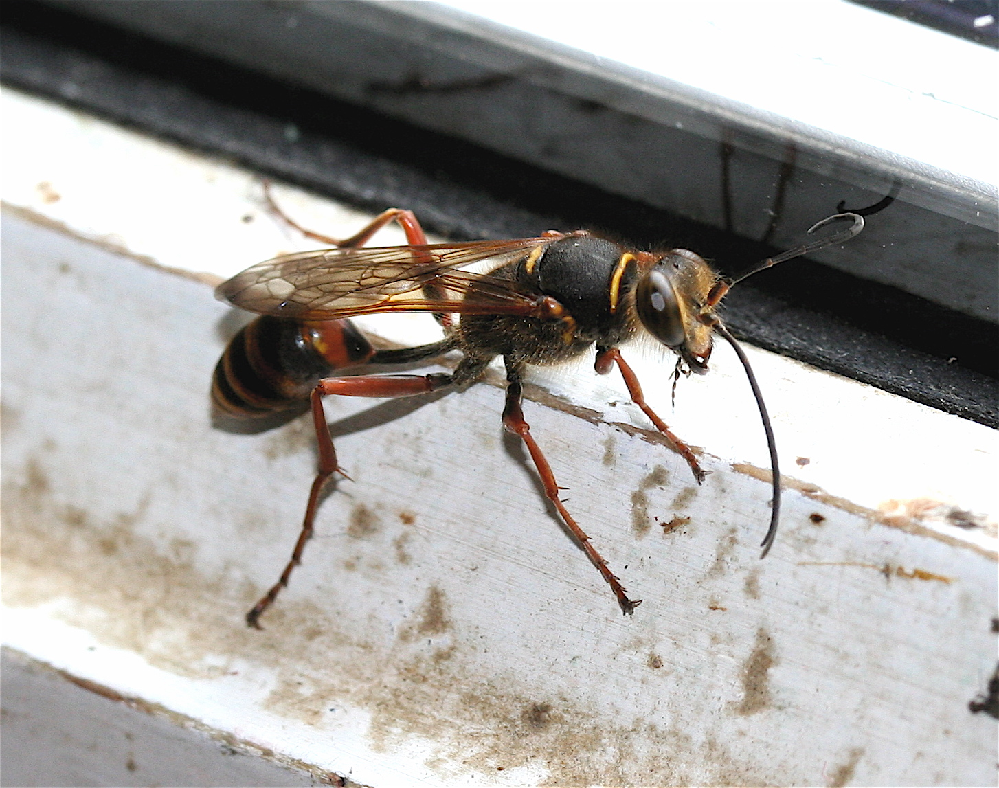 Hymenoptera - Sphecidae - Sceliphron curvatum (Smith, 1870)